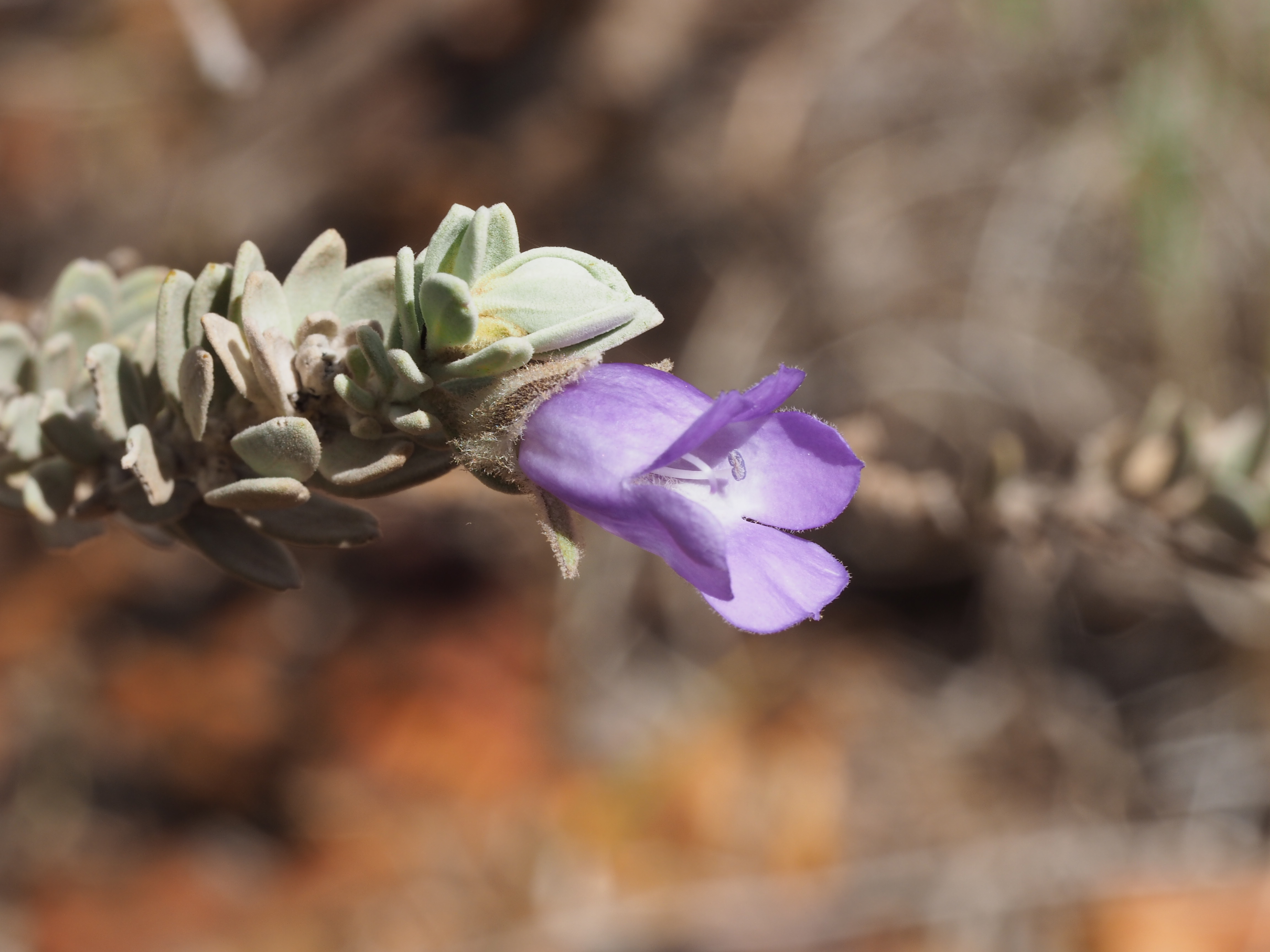 Eremophila jucunda pulcherrima growing on Mount Robinson